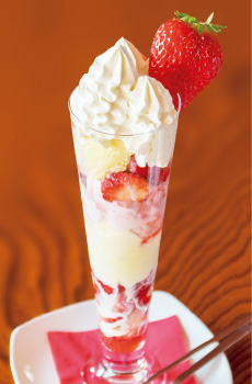 The Benihoppe Parfait was made by Enshu Chaya.